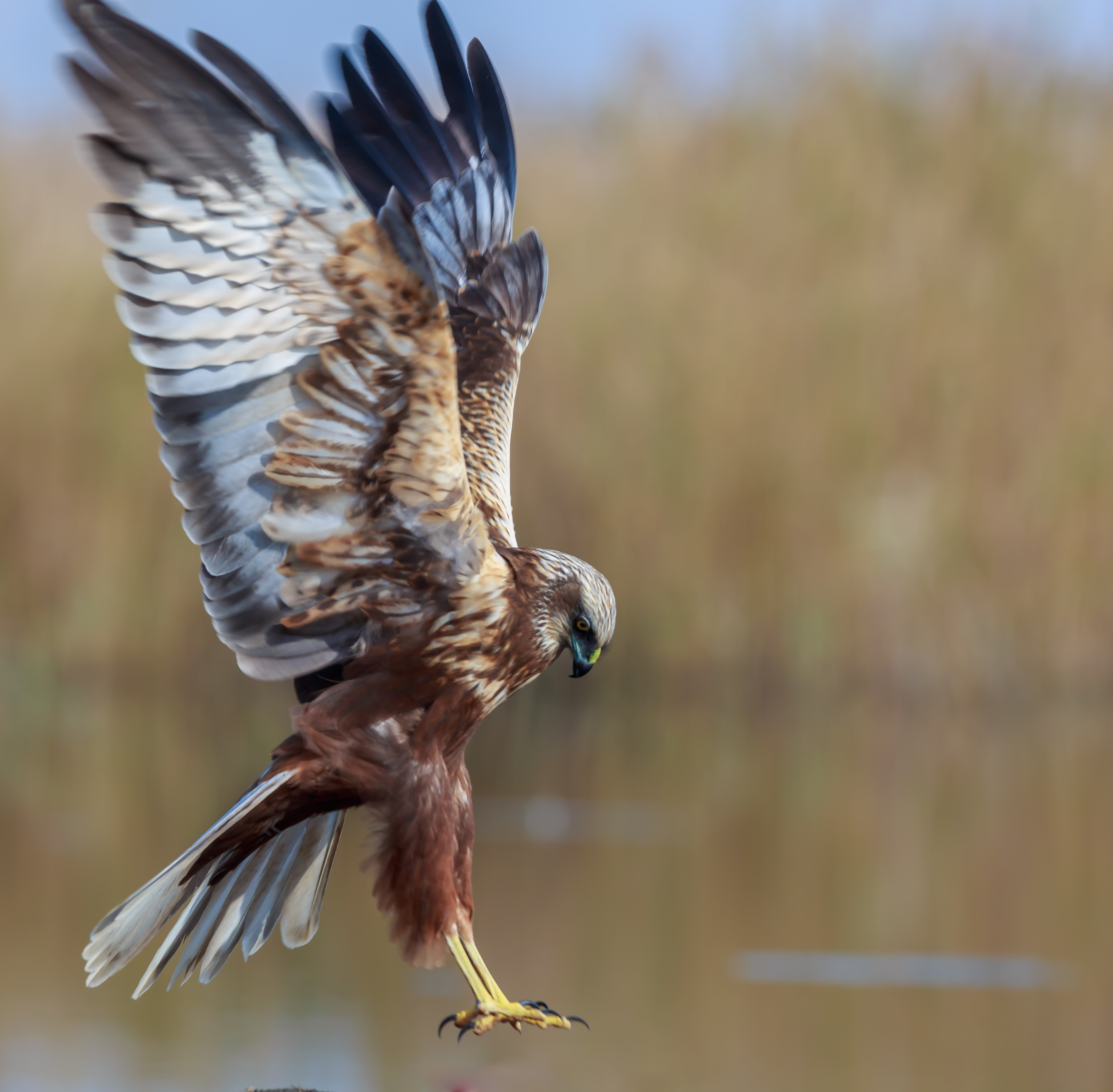 Female European Marsh Harrier (Circus aeruginosus), Valencia, Spain.